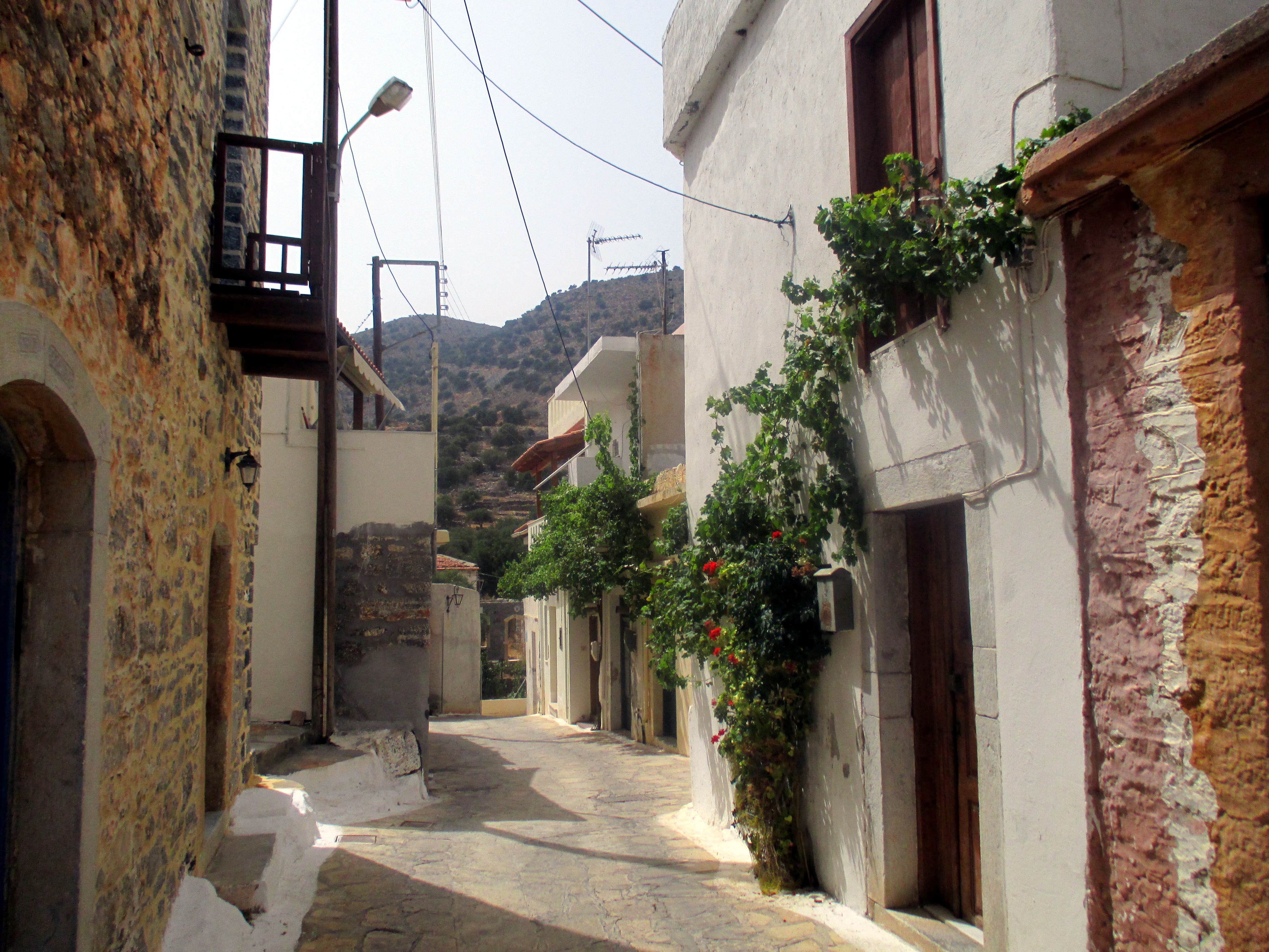 Epano Elounda village, Lasithi, Crete, Greece.